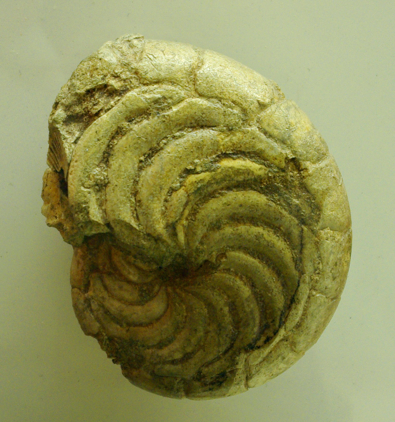 Aturia, fossil of Eocene Puglia, Italy